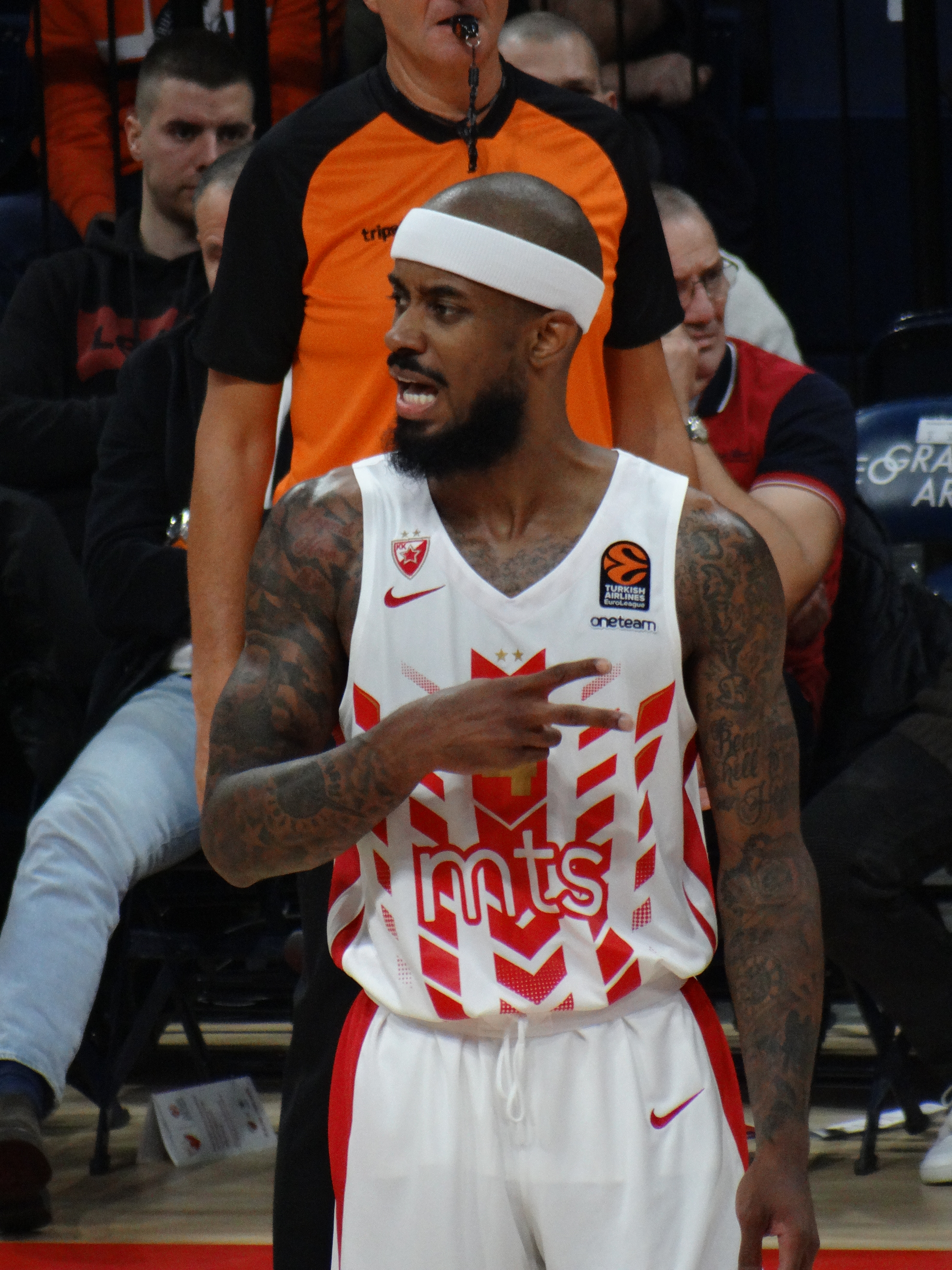 Lorenzo Brown 4 KK Crvena zvezda EuroLeague 20191010